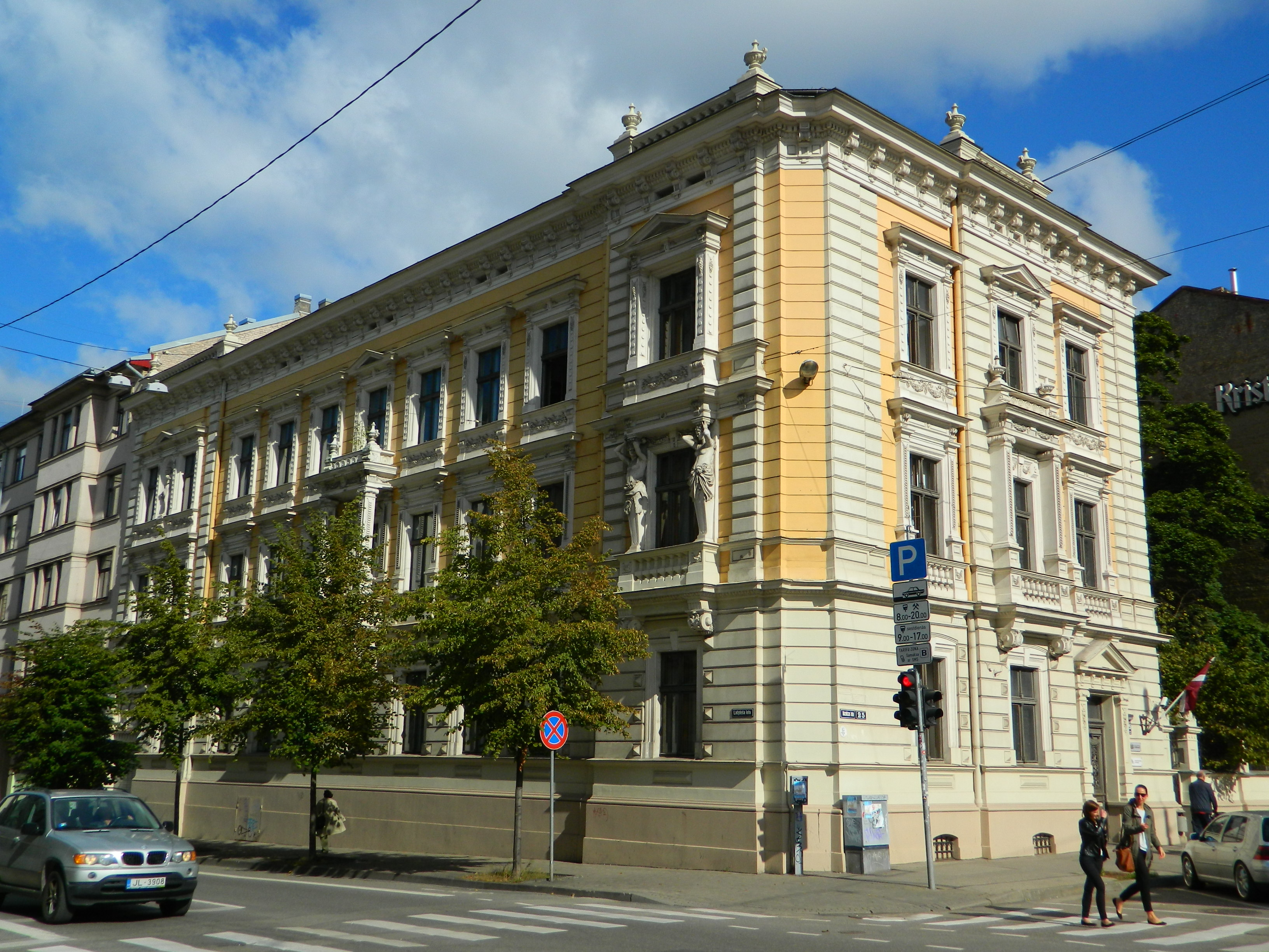 Tenement house, Riga